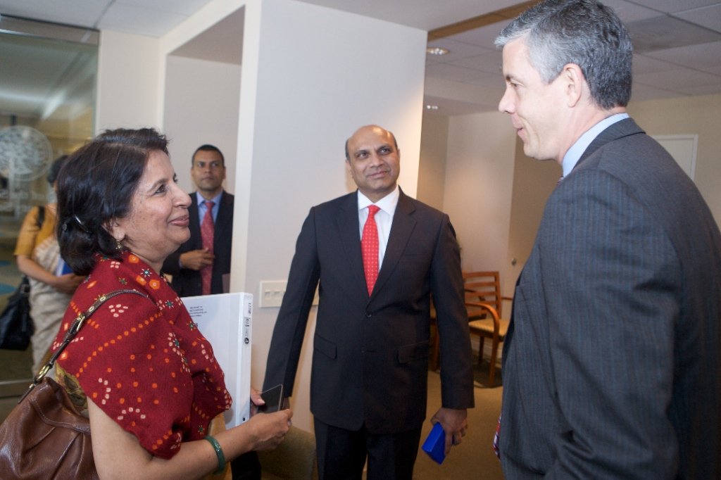 Left to right: Nirupama Rao, Indian Ambassador to the United States, Pallam Raju, Indian Minister of Human Resources Development, and Arne Duncan, US Secretary of Education.